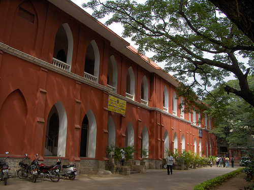 The City Campus of the University